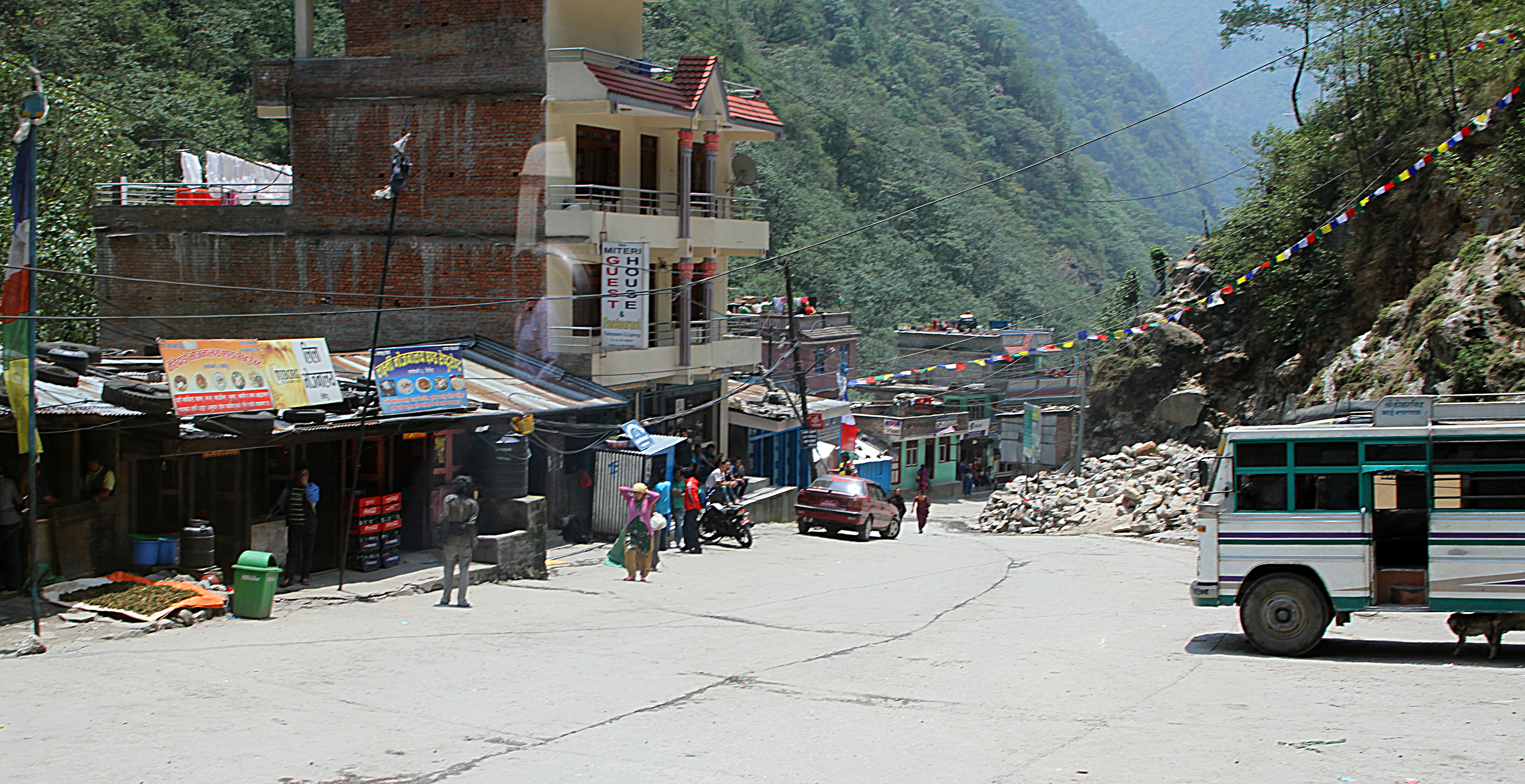 Araniko Highway in Nepal